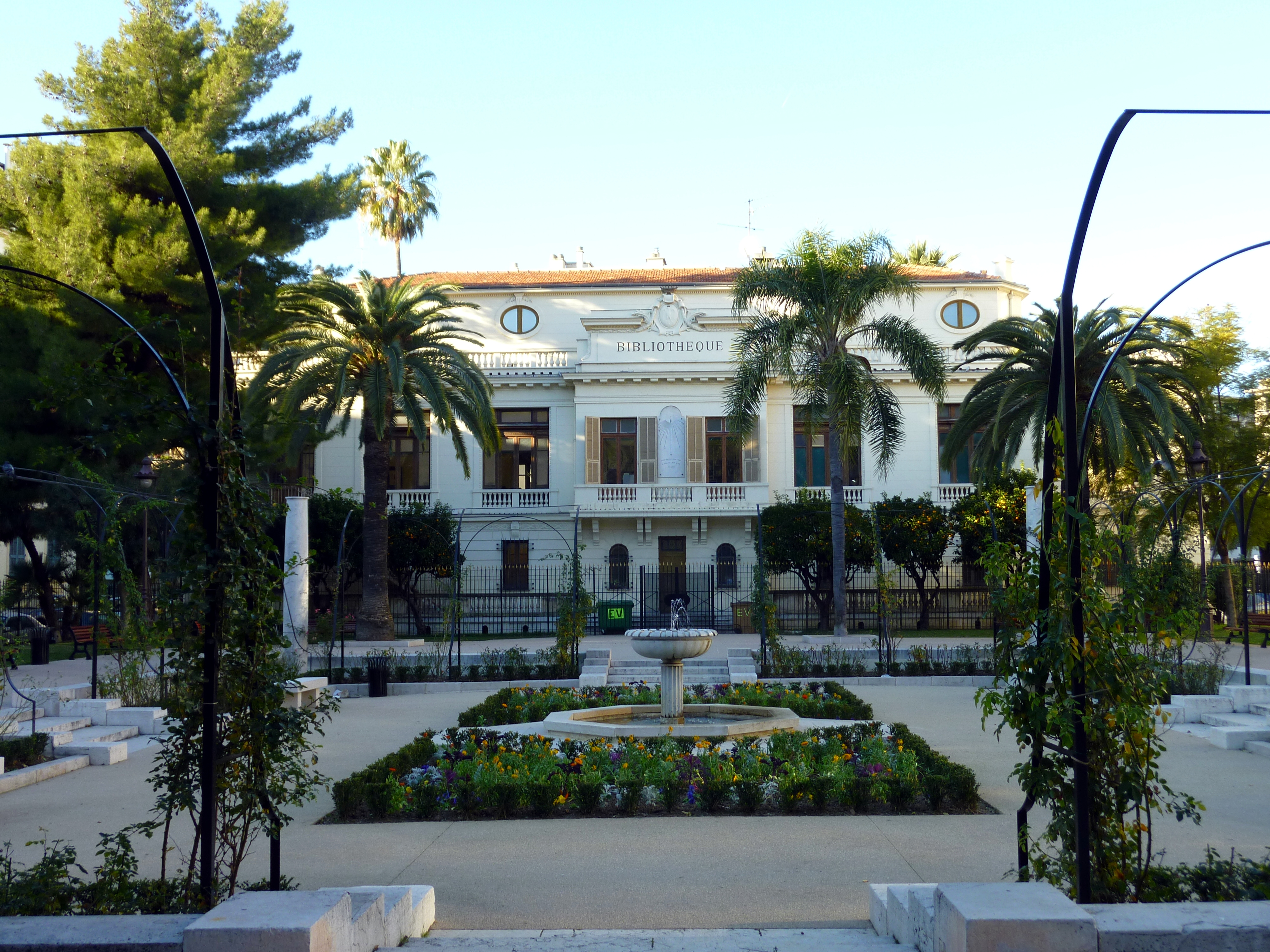 Romain Gary heritage library, Nice, France. Take from the garden.